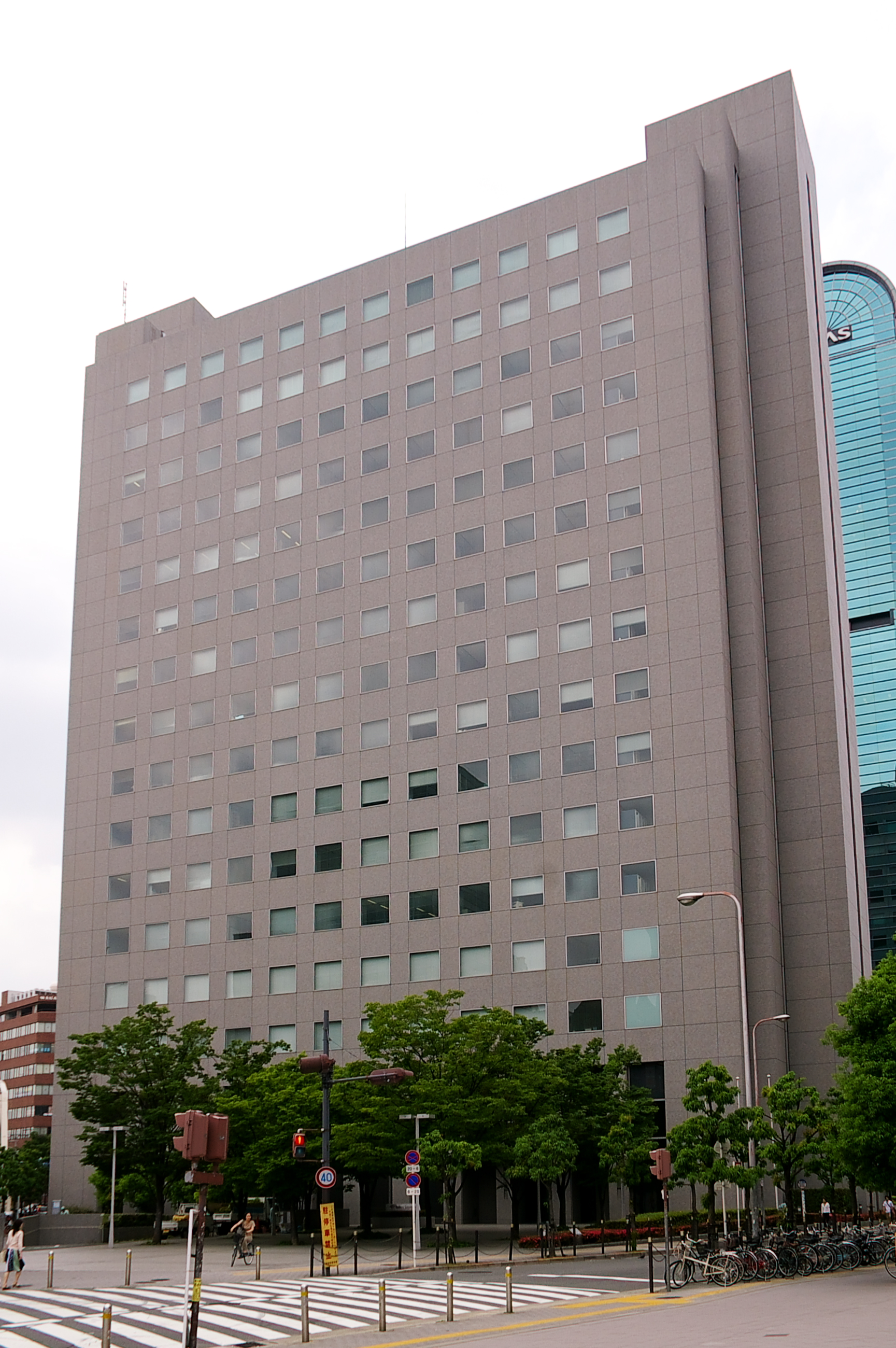 大阪市北区芝田1丁目の阪急電鉄本社ビル。阪急ホールディングス（撮影当時）、阪急電鉄をはじめとするグループ各社の本社事務所や「エコルテホール」がある。1992年10月竣工。設計・施工は竹中工務店。SILKYPIX Developer Studio 3.0で色調・遠近法を再調整し、ライセンス条件を変更した。